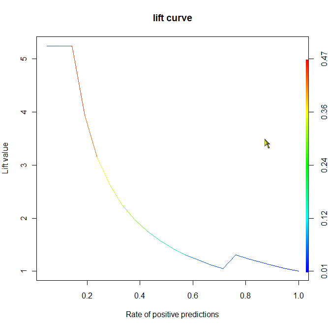 Lift curve evaluating a random forest model on Kyphosis data with R